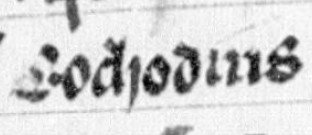 An excerpt from folio 29r of Lat. 4126 (the Chronicle of the Kings of Alba). The excerpt refers to Eochaid, son of Rhun.